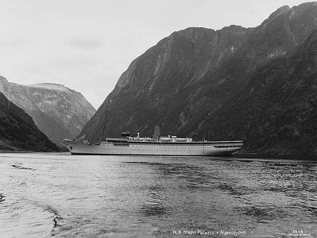 Norwegian cruiseship MY Stella Polaris built in 1927.